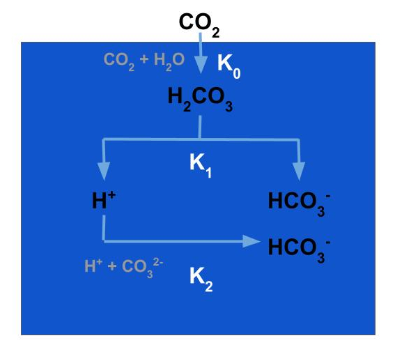 This is a graphic description of the dissociation of carbon dioxide and the carbonate chemistry that follows in the oceanic solubility pump Other information It is a different graphic from the one provided in his slides, but I have modified it. It's the same concept but not the same image